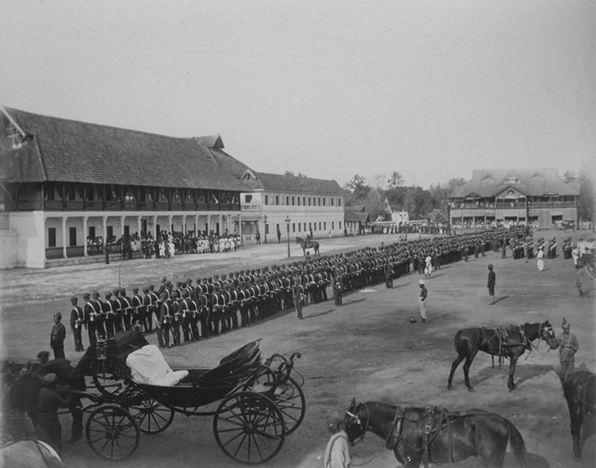 Photograph taken about 1900 by the Government photographer, Zacharias D'Cruz of a view of the Adoption Durbar, Trivandrum. It is one of 76 prints in an album entitled 'Album of South Indian Views' of the Curzon Collection. George Nathaniel Curzon was Under Secretary of State at the Foreign Office between 1895-98 and Viceroy of India between 1898-1905. The State troops at the Adoption Durbar can be seen here on parade during the ceremony. This image falls into the public domain as it was taken in India prior to 1 January 1951, and was not published in India after that date. It is in public domain in the United States as well as it was taken prior to 1 January 1951.